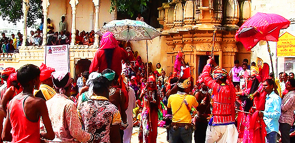 Bhilurana drama depicts Mughal, East India Company and Brit Empire invaders and how Bhil guerrilla fighters thwarted them.